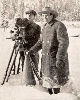 Director King Vidor and camera operator Gus Peterson during the filming of The Sky Pilot (1921), page 13 of the May 1921 The Photodramatist.